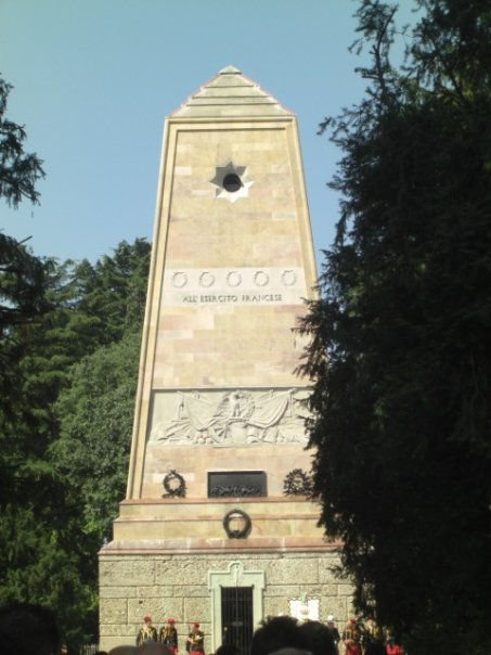 Ossuary in Magenta